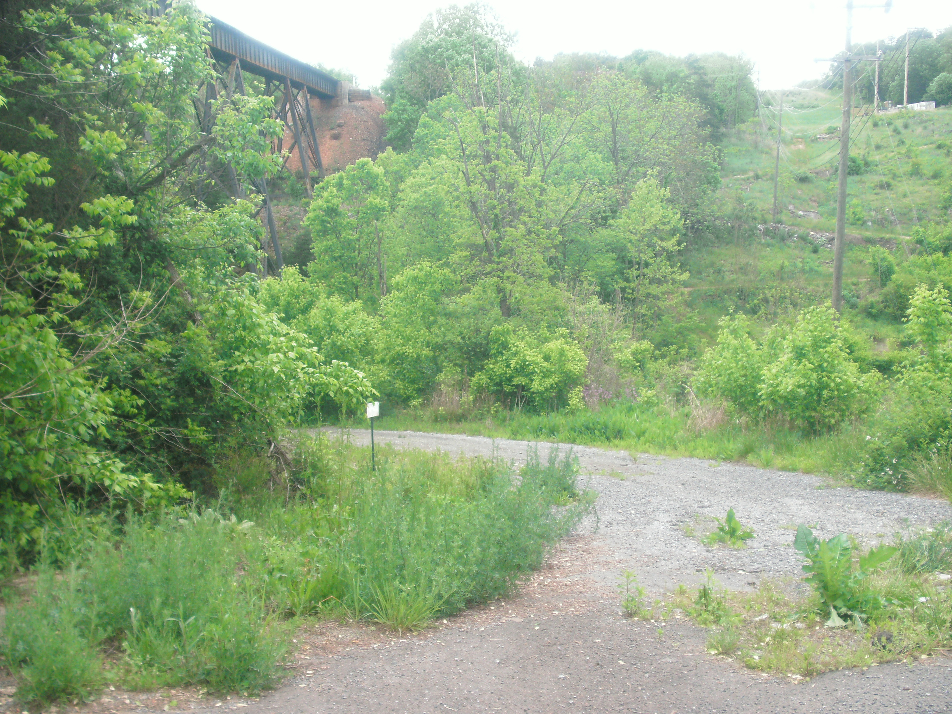 View of the Battle of Milford battlefield, Overall Run, Virginia GEDSC DIGITAL CAMERA